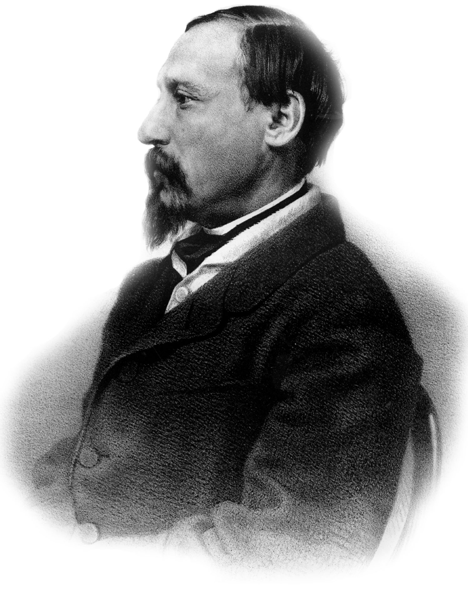 Nikolay Nekrasov